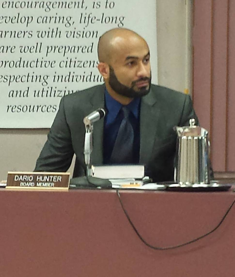 Picture of Rabbi Dario Hunter, first Muslim-born person to become a rabbi, seated as a board member of the Youngstown Board of Education (Youngstown, OH).